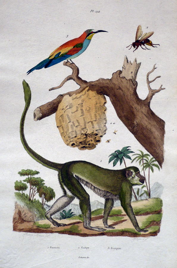 Illustration from Félix Édouard Guérin-Méneville's Dictionnaire Pittoresque d’Histoire Naturelle, Paris 1836-1839. Plate 194 Guenon - Guepe - Guepier (Bee-eater)